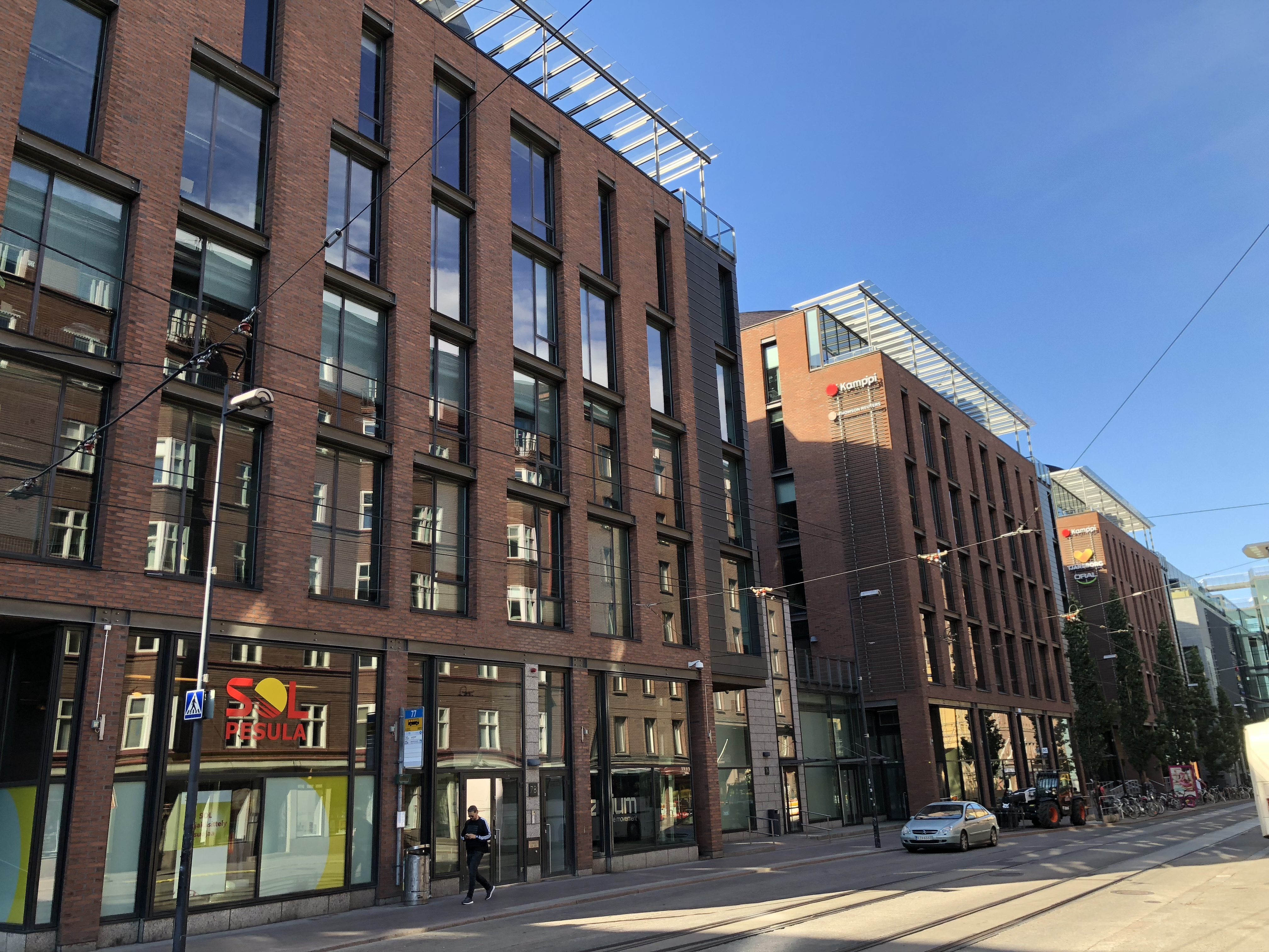 Urho Kekkosen katu filmed in summer 2018.